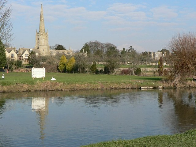 The River Thames at Lechlade, Gloucestershire, seen from the south bank of the river beside Ha'penny Bridge. The tower and spire are those of St Lawrence's parish church.